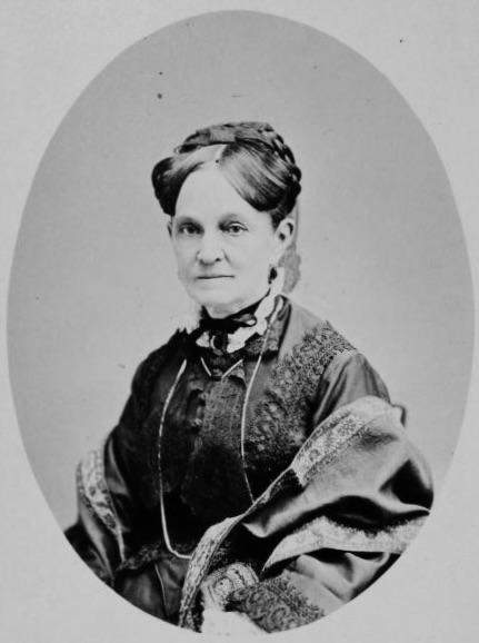 Elizabeth Emerson Atwater, from "Memorial sketch of Elizabeth Emerson Atwater : Written for her friends" by Mary Clemmer